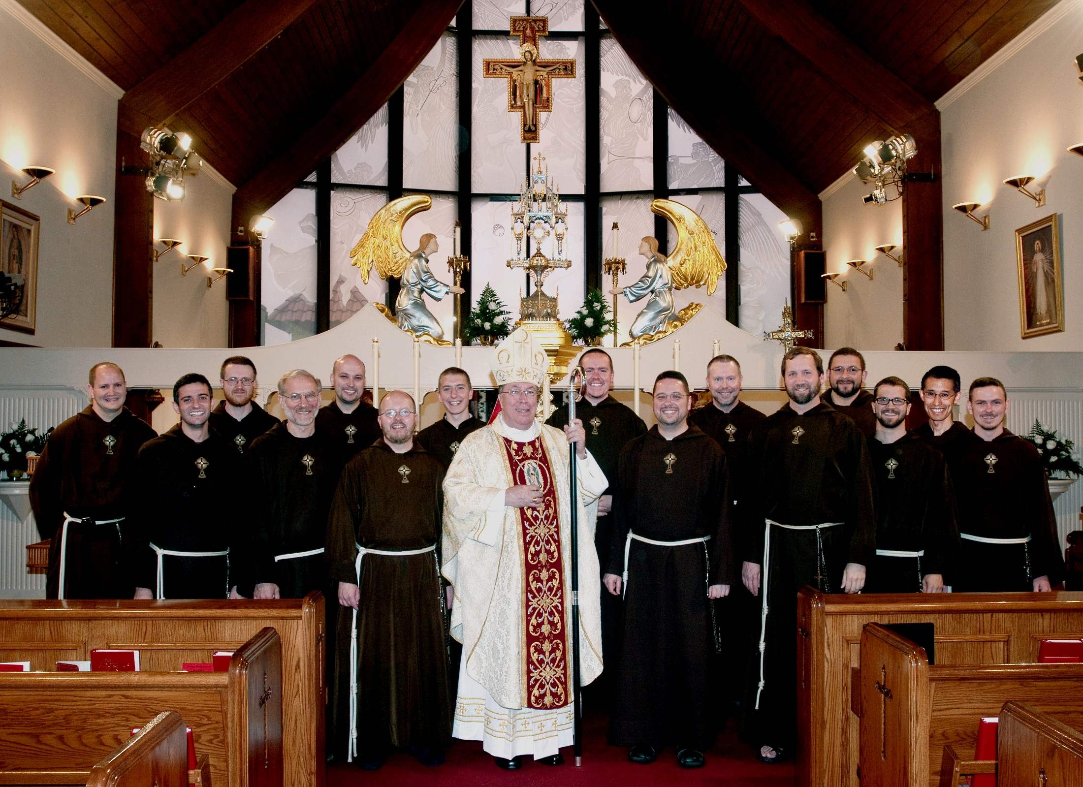 Friars with Bishop Robert Baker